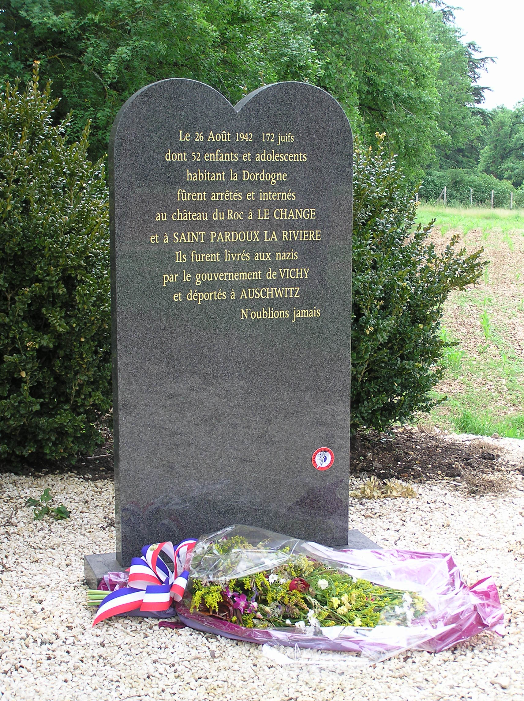 Stele in memory of jews deportees of the Dordogne, in front of the castle of Le Roc (Le Change